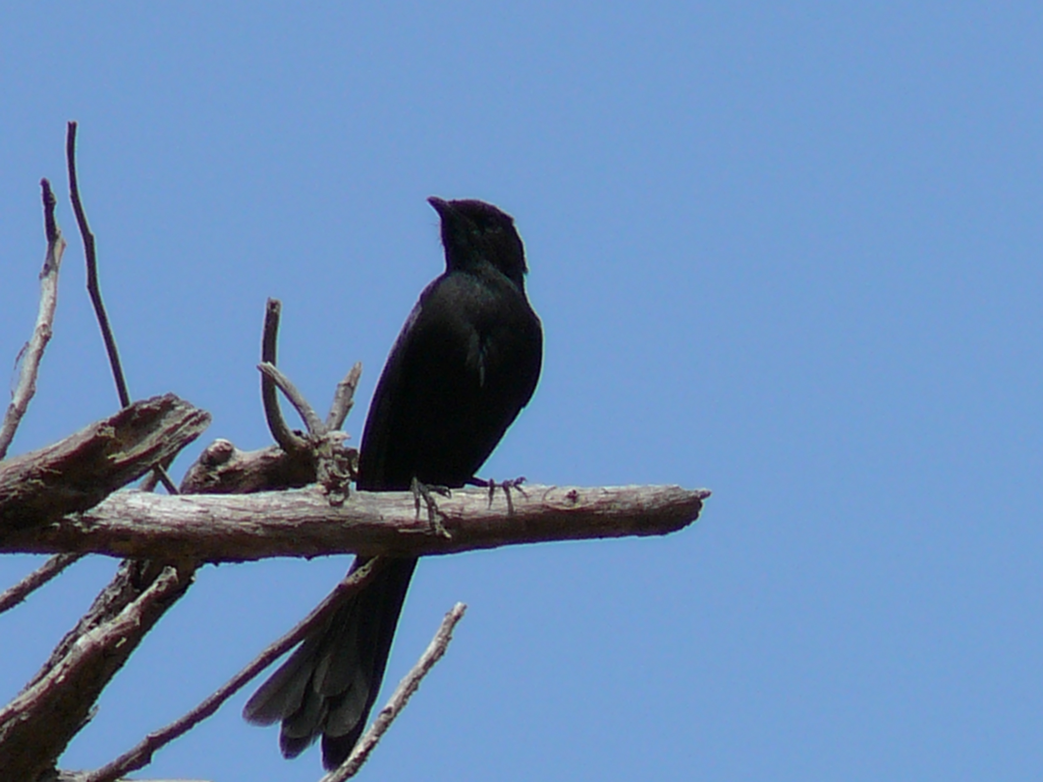 Northern Black Flycatcher